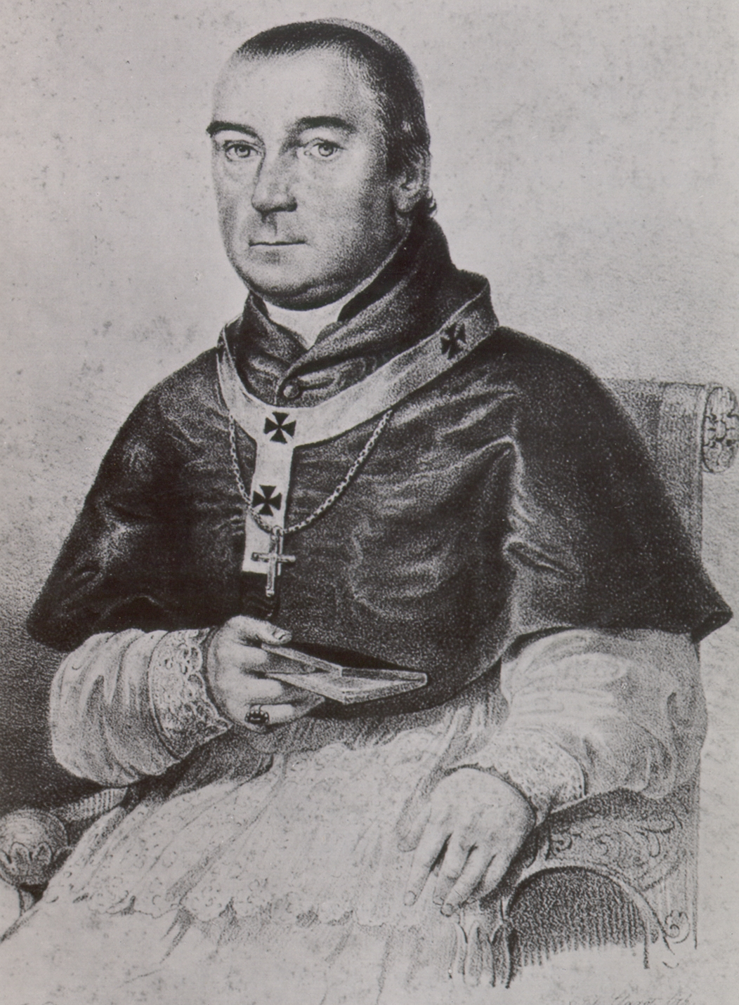 Bishop Franc Ksaverij Lušin (1781-1854)